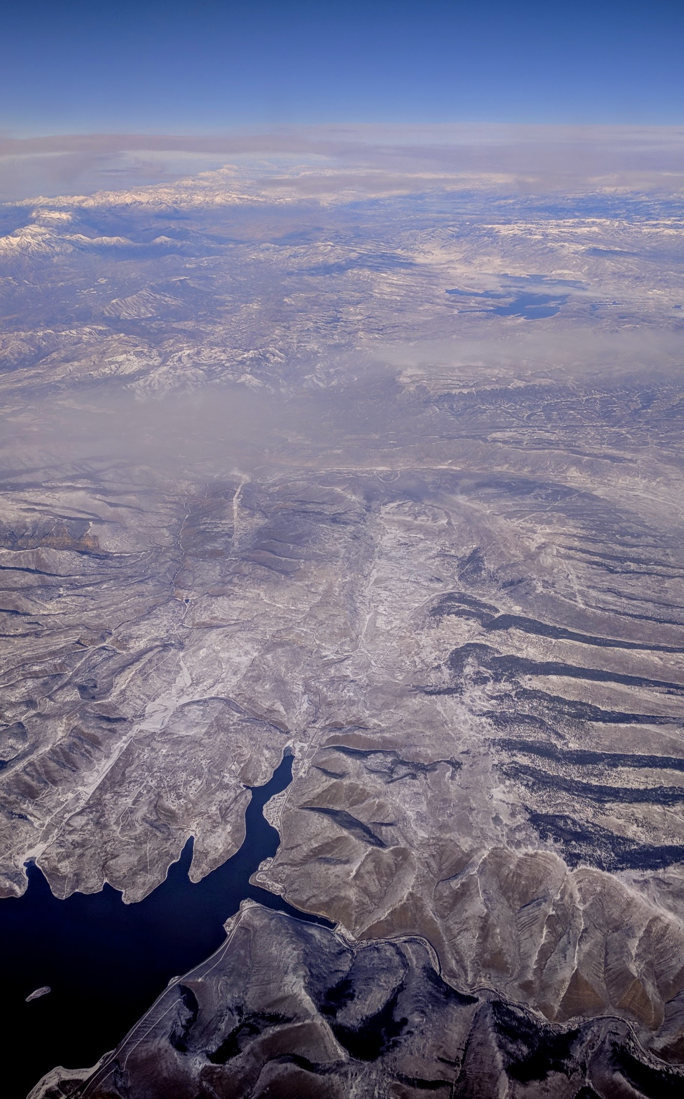 Scofield Reservoir (lower left) near Provo, Utah. The dam is at the rightmost point of the water.